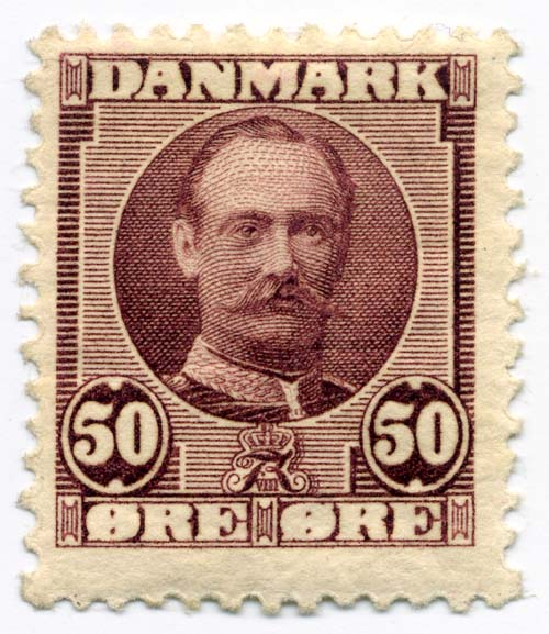 Scan of Denmark 50-ore stamp of 1907